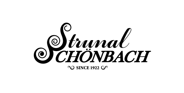 Strunal Schönbach / since 1922 / logo March 2016